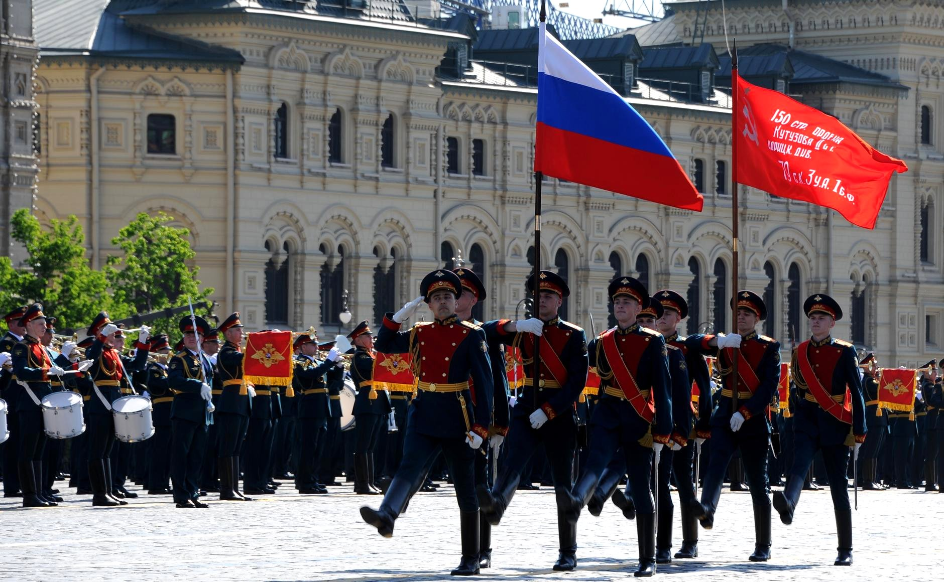 Military parade on Red Square 2016-05-09